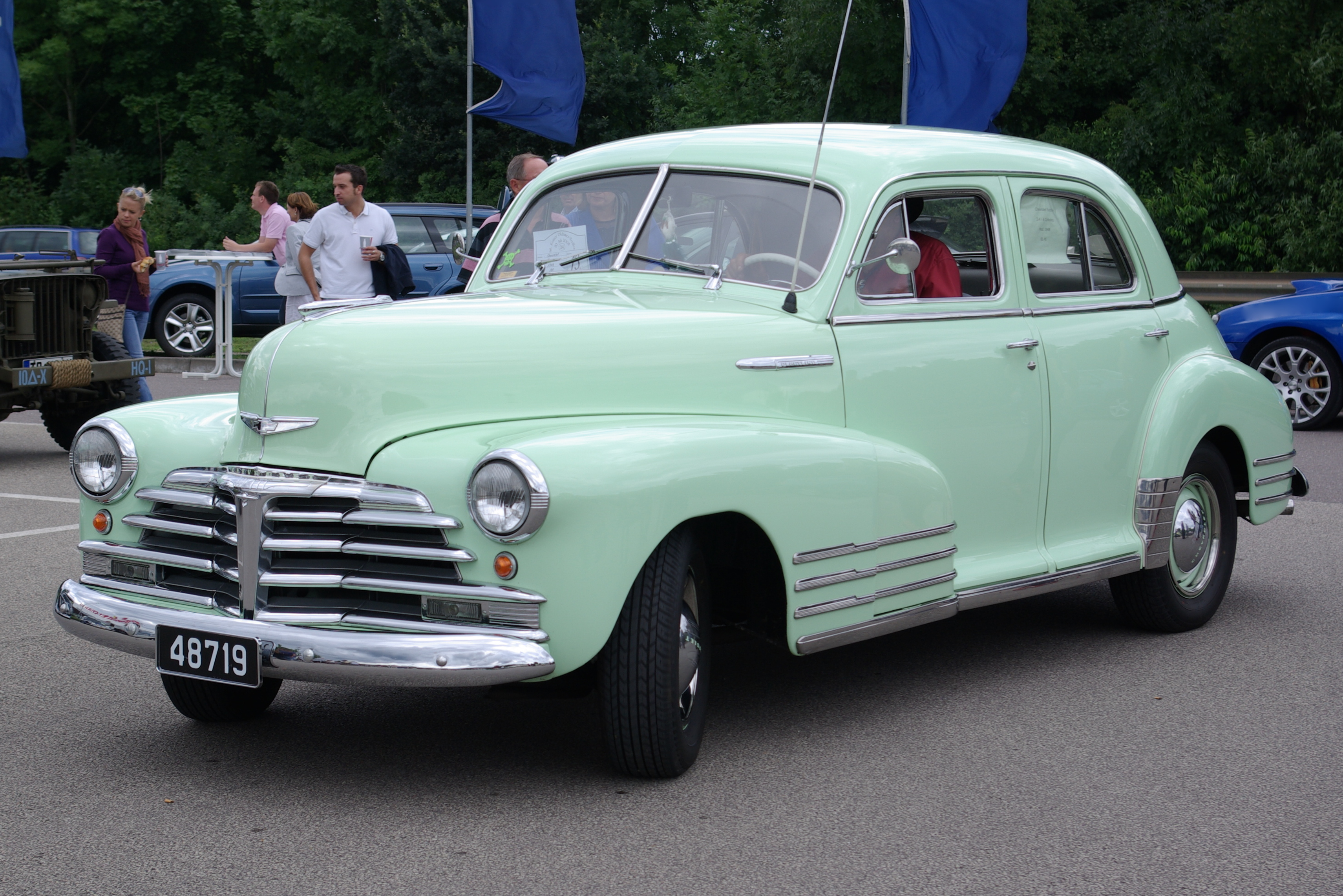 1948 Chevrolet Fleetline, 100 HP